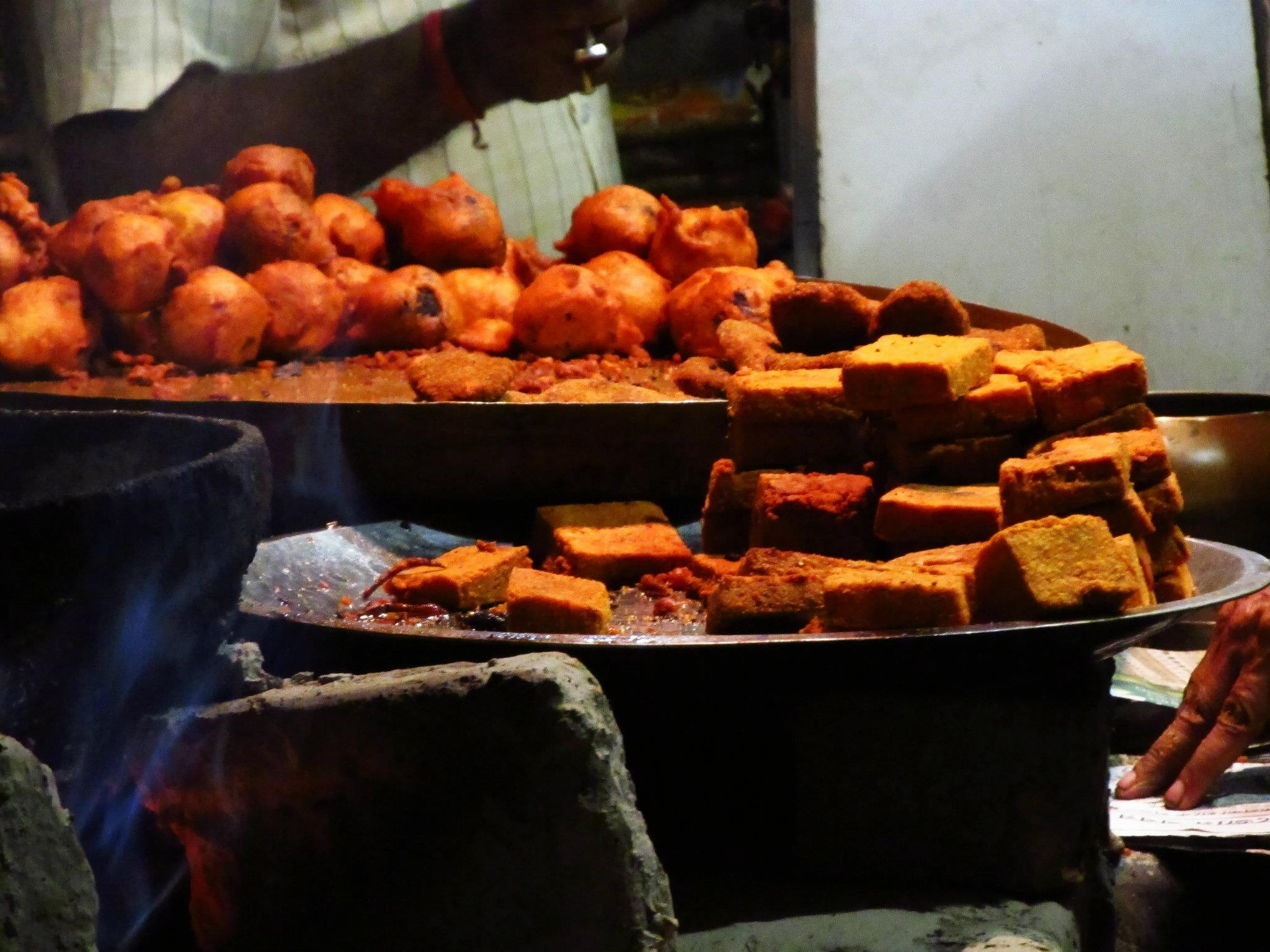 Bengali's most favourite food that compliments the Adda